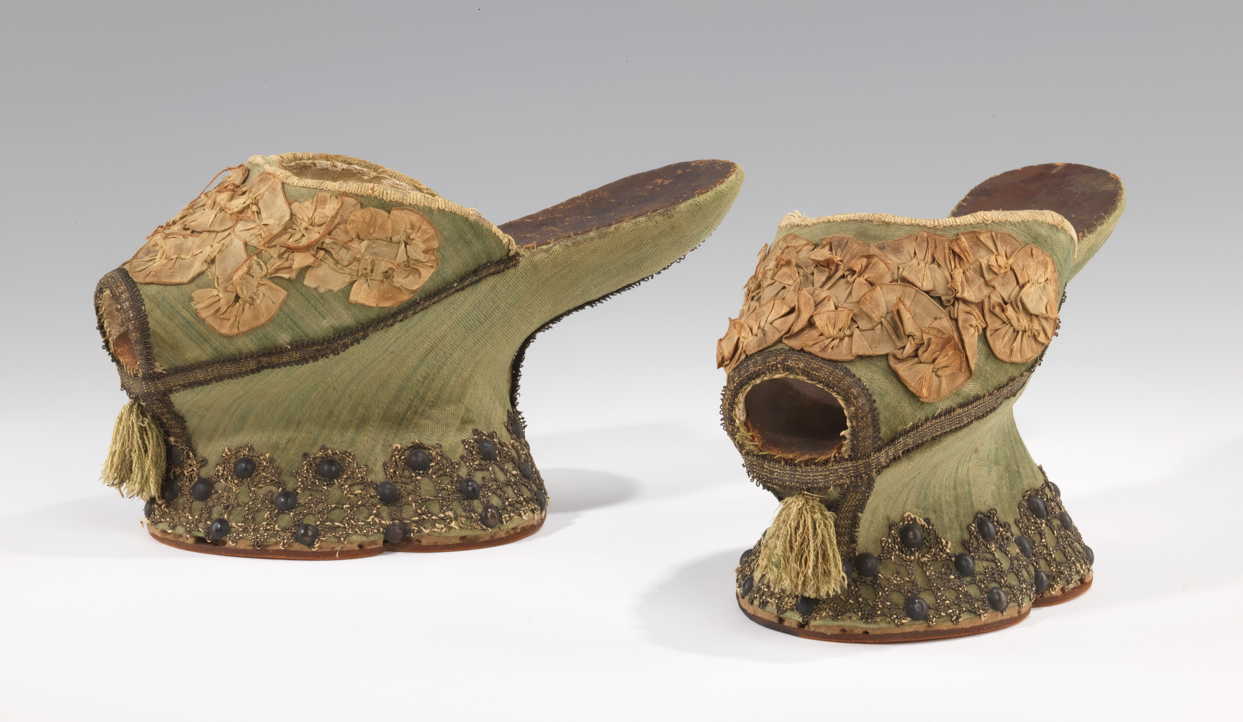 Italian; Chopines